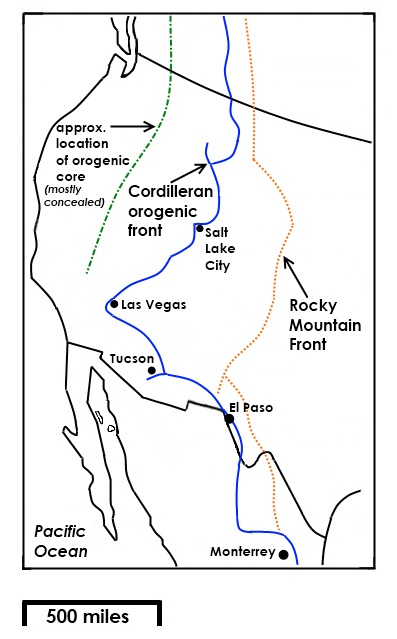 Map of the Rocky Mountain Front, the Cordilleran orogenic front, and the Cordilleran orogenic core in North America. Based on data in: Drewes, Harald. "Development of the Foreland Zone and Adjacent Terranes of the Cordilleran Orogenic Belt Near the U.S.-Mexican Border." In Interaction of the Rocky Mountain Foreland and the Cordilleran Thrust Belt. Christopher J. Schmidt and William J. Perry, eds. Boulder, Colo.: Geological Society of America, 1988, pp. 447-463, 448.